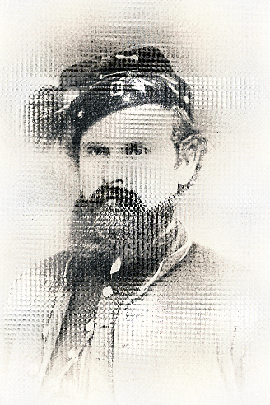 William Wallace Brown, US Representative from Pennsylvania